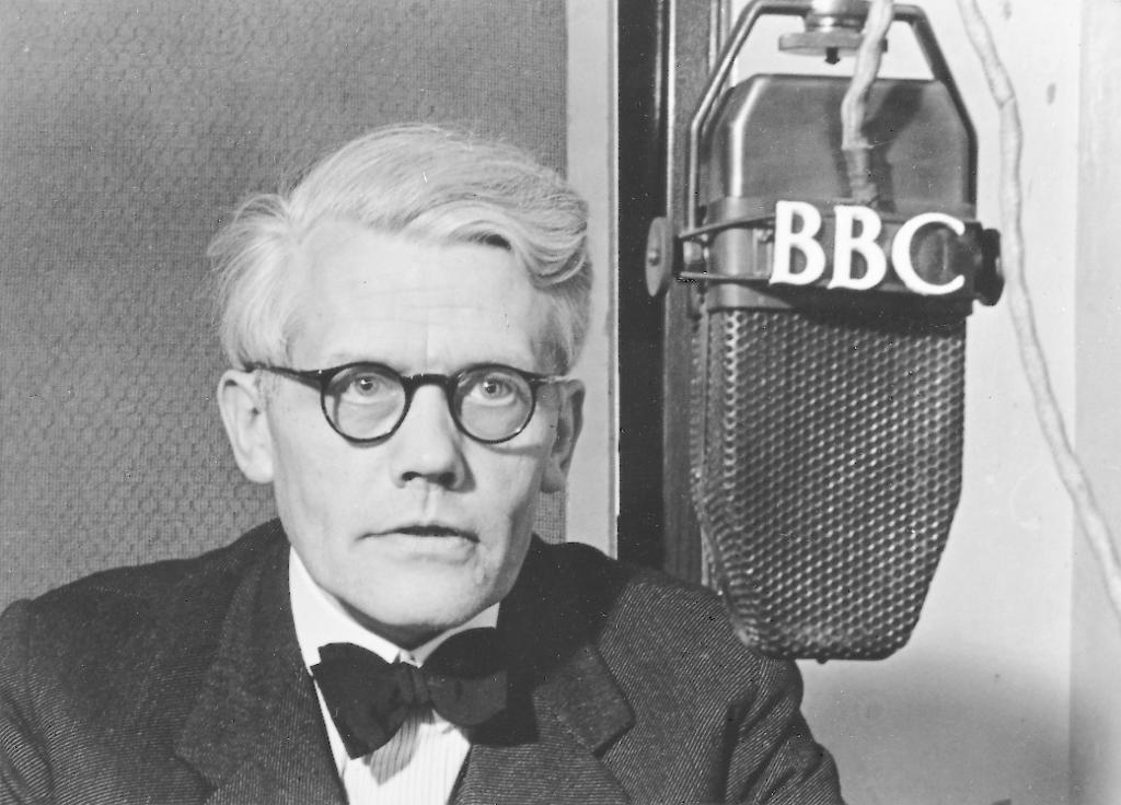 John Christmas Møller (1894–1948) giving a radio speech to Denmark from BBC in London.